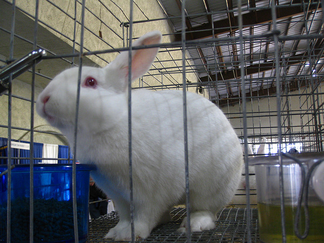 Florida White Rabbit at a show